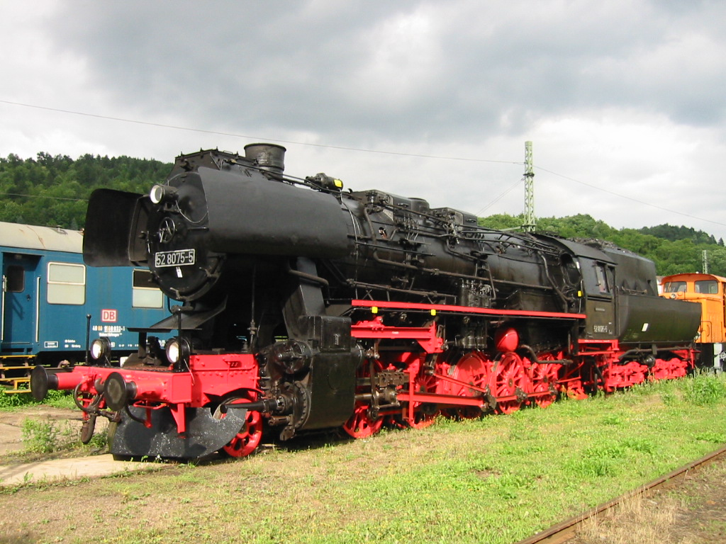 Deutsche Reichsbahn DR Class 52.80 steam locomotive number 52 8075 at Eisenach, Germany